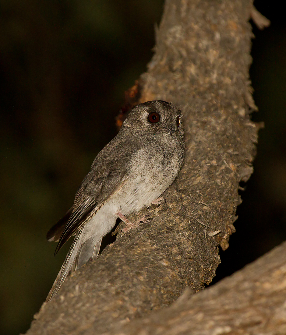 One of the many at our place in Strangways.